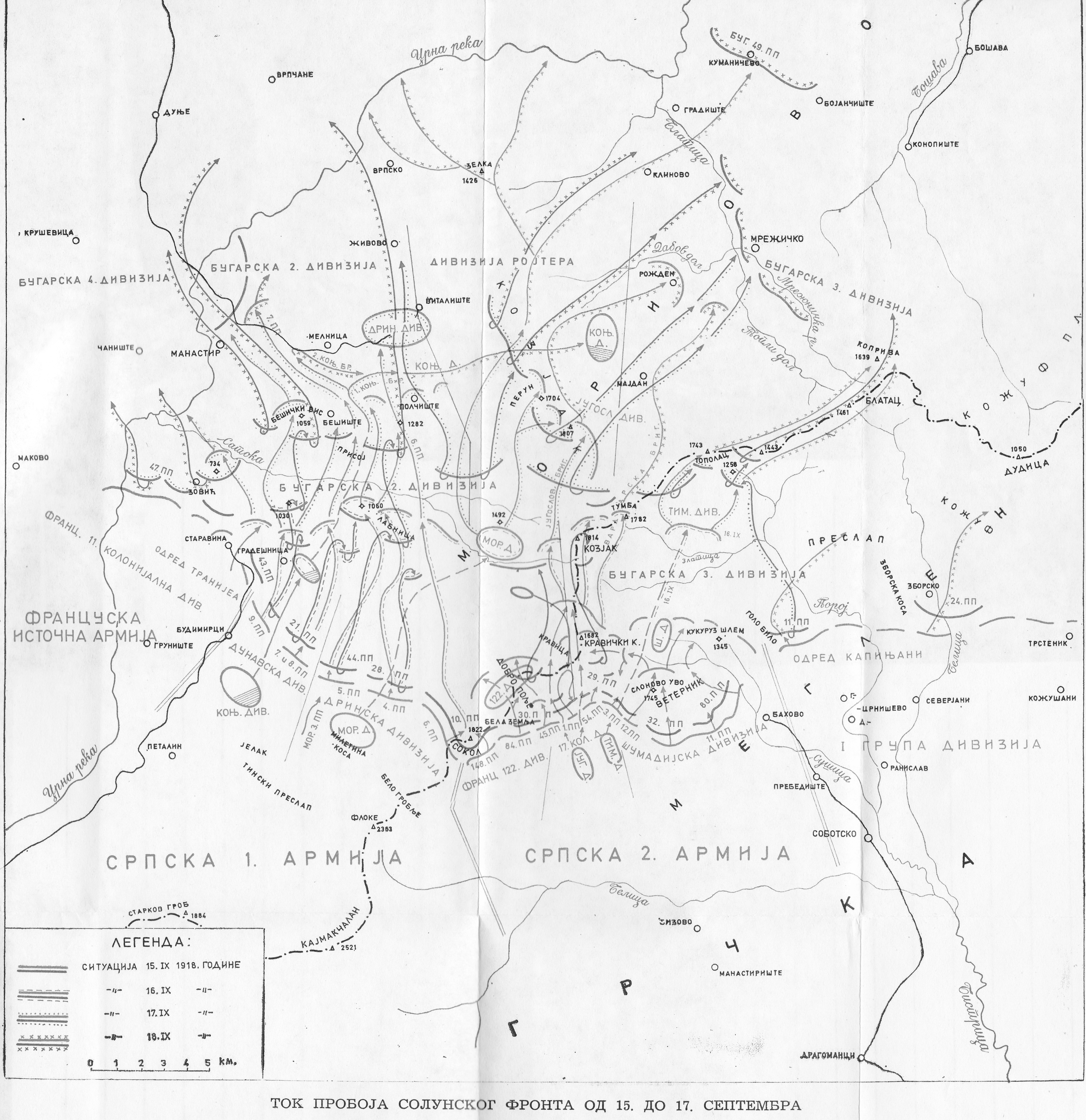 Breakthrough by Serbian I and II Army on 15-17. September 1918